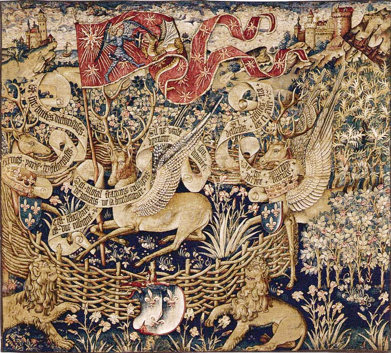 Tapestry of the winged deers from the Musée départemental des Antiquités de Rouen